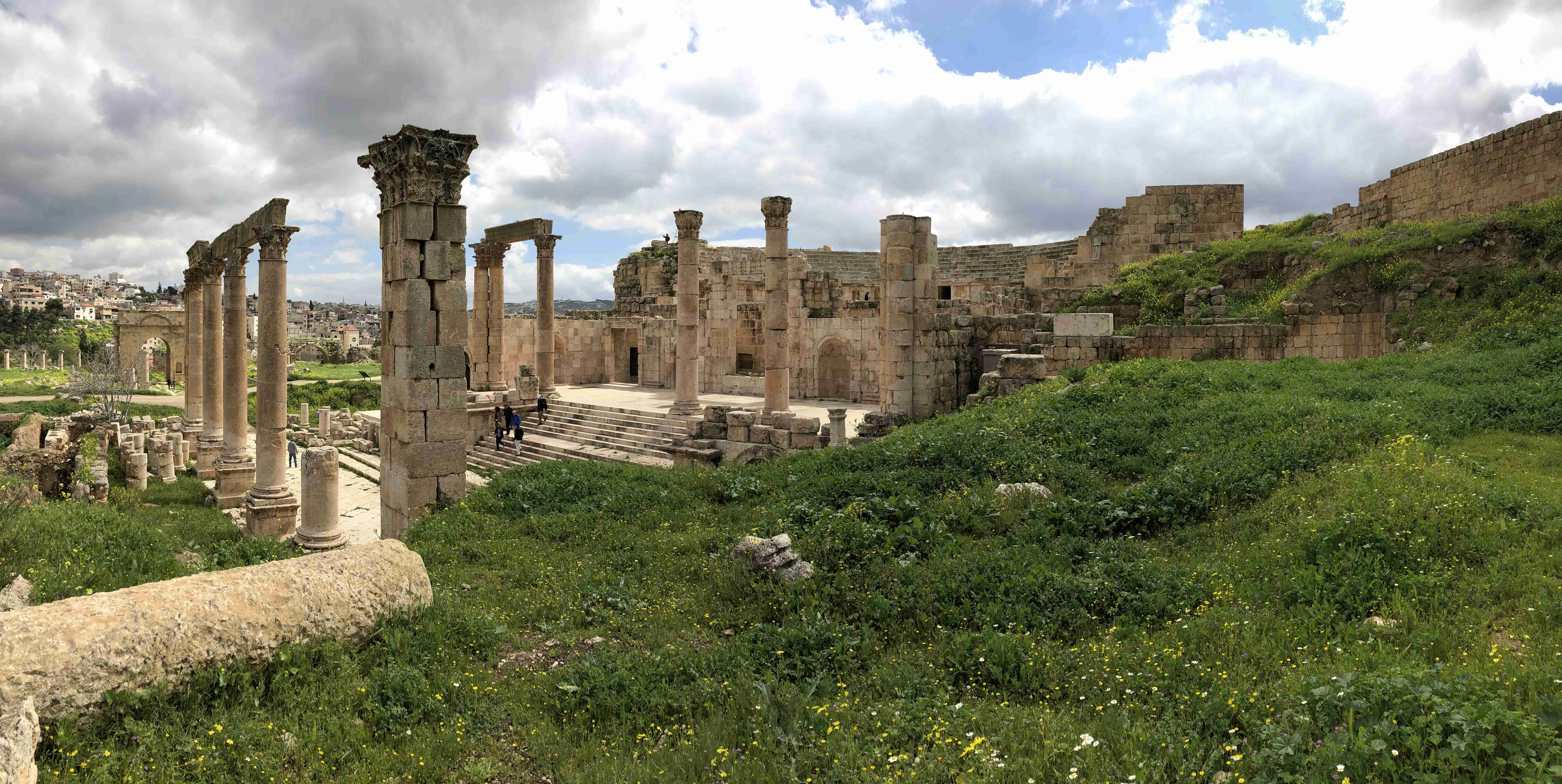 Gerasa northern theatre entrance